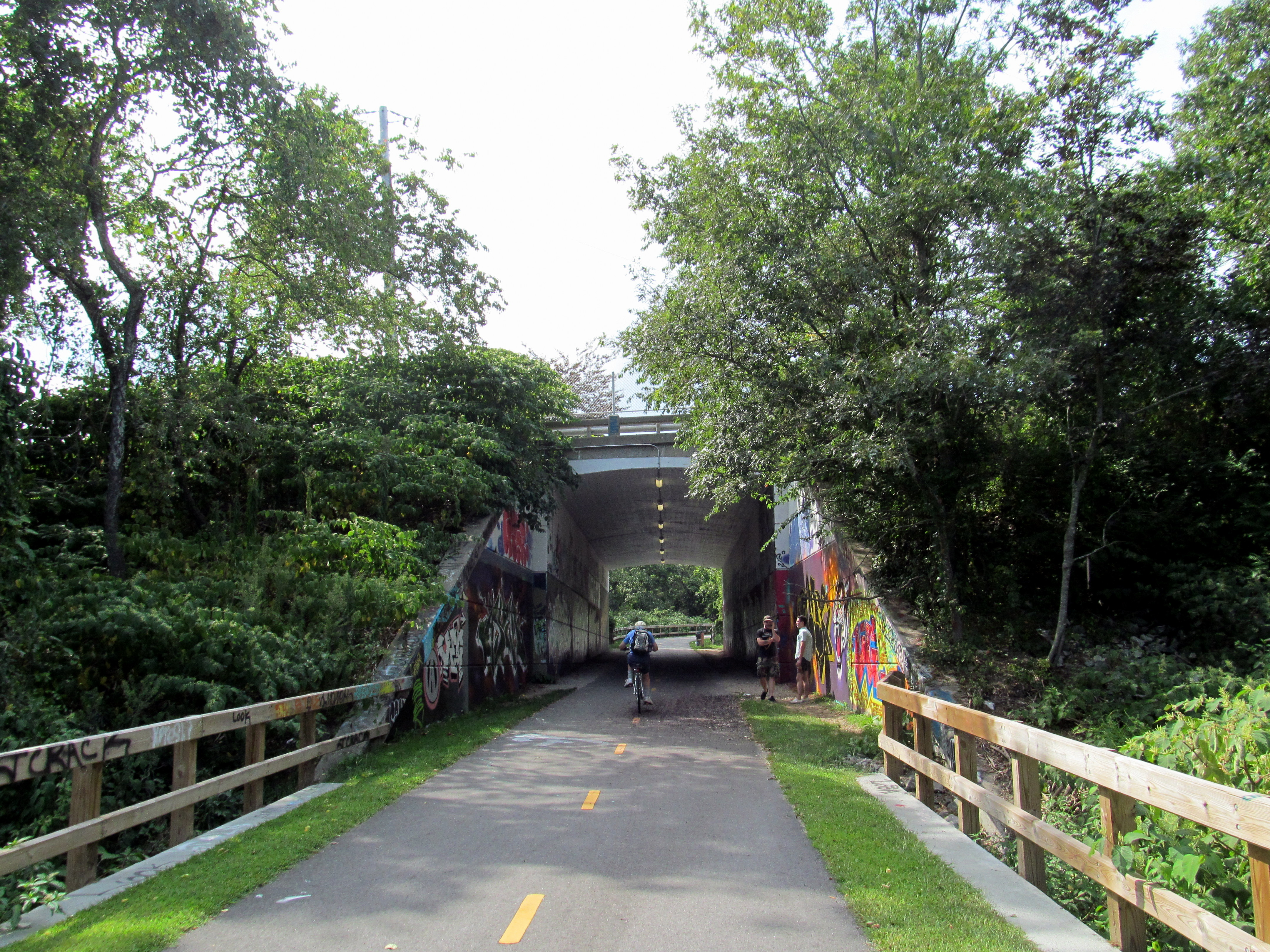 The South County Bike Path runs under Route 1 in South Kingstown, Rhode Island